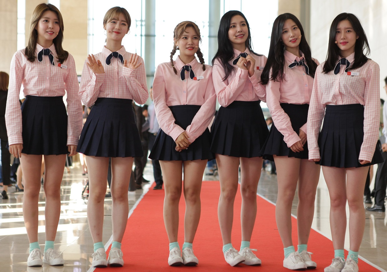 Berry Good at LBMA Star Awards, 8 June 2017